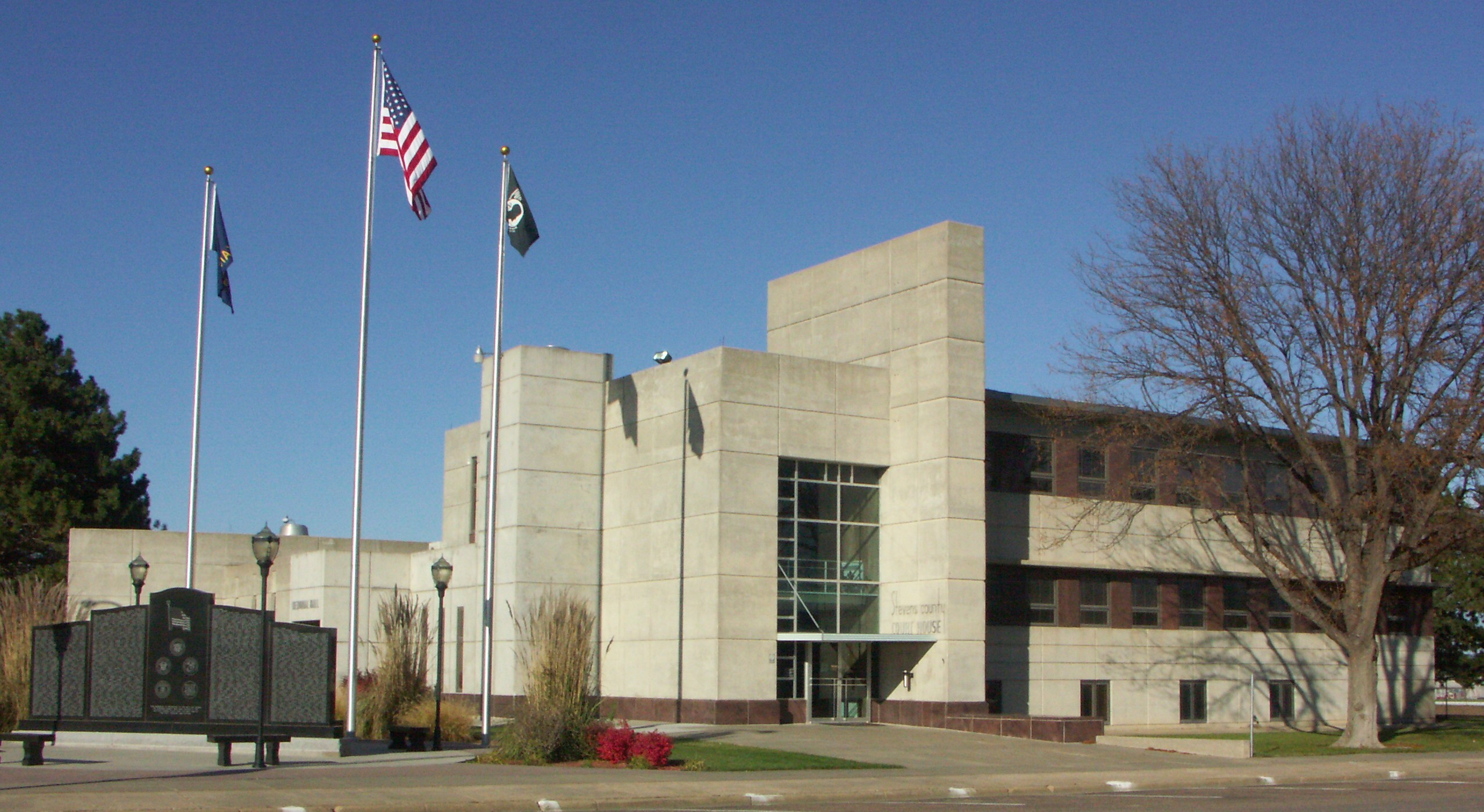 Stevens County Court House, Hugoton, Kansas